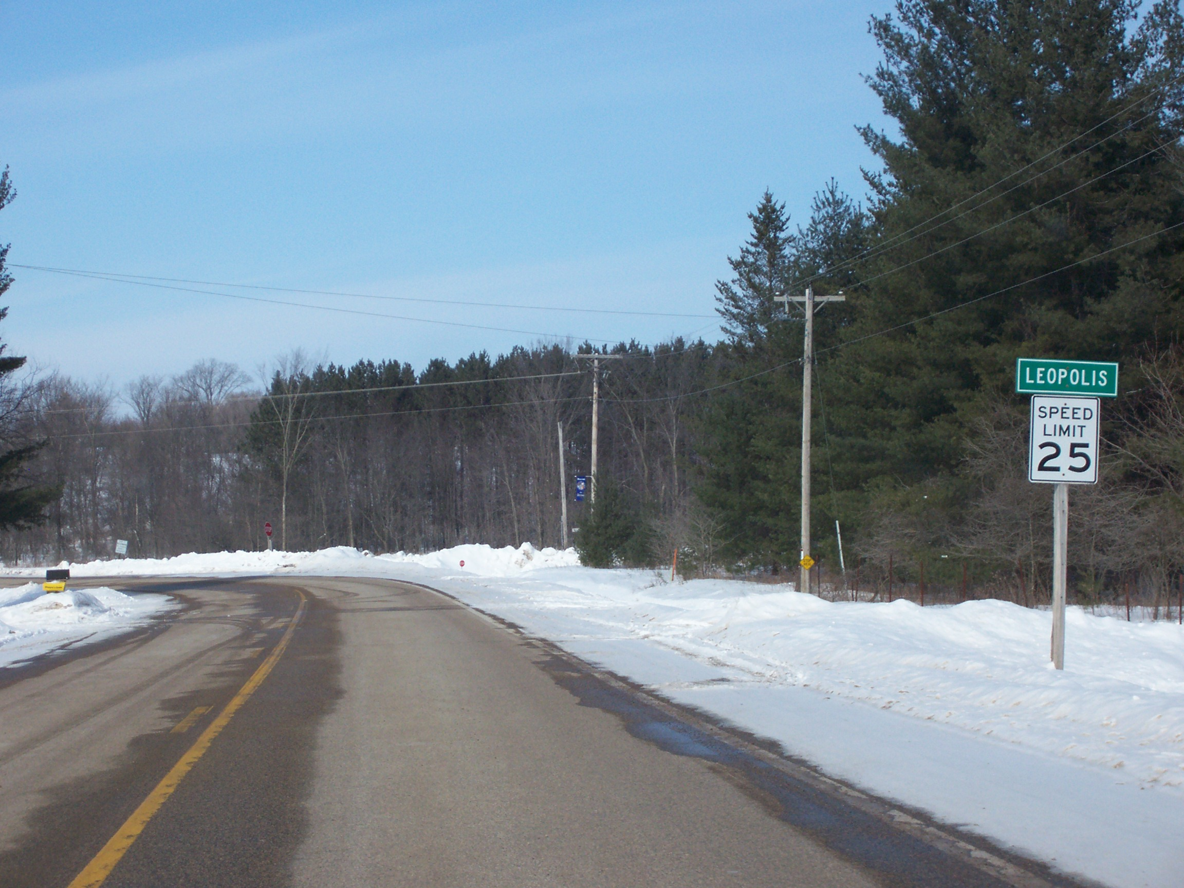 Looking at the sign for Leopolis, Wisconsin. Taken while traveling northwest on County Highway D.